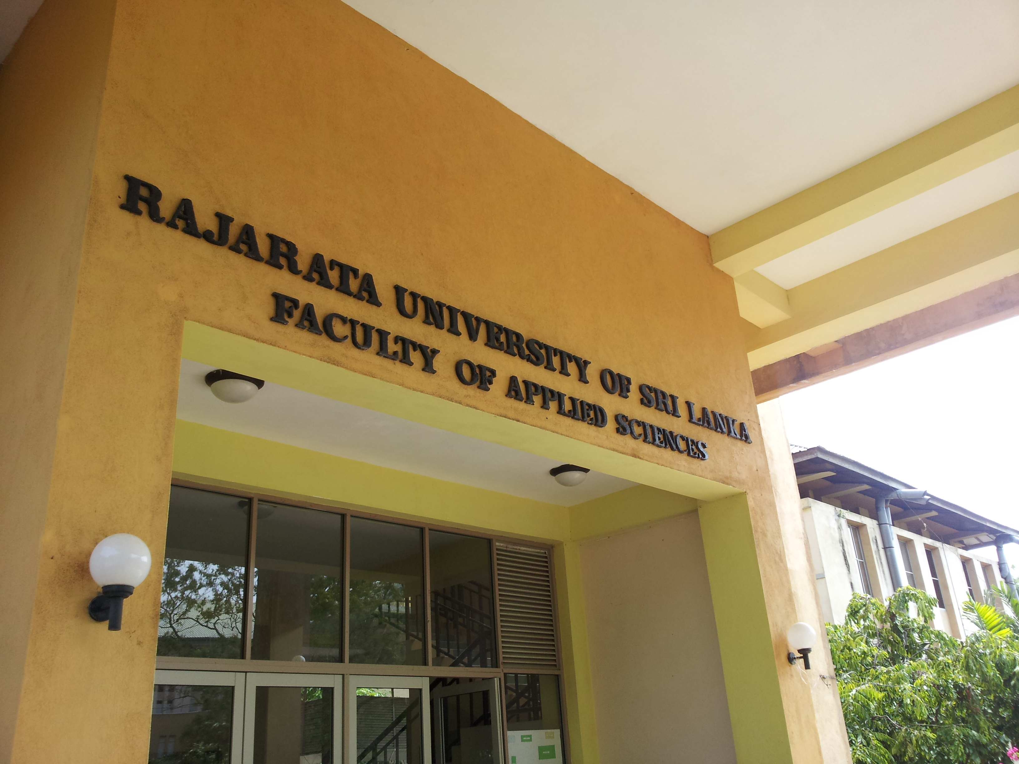 FASc in RUSL